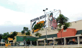 Photo shot of Giant Hypermarket, Senawang.